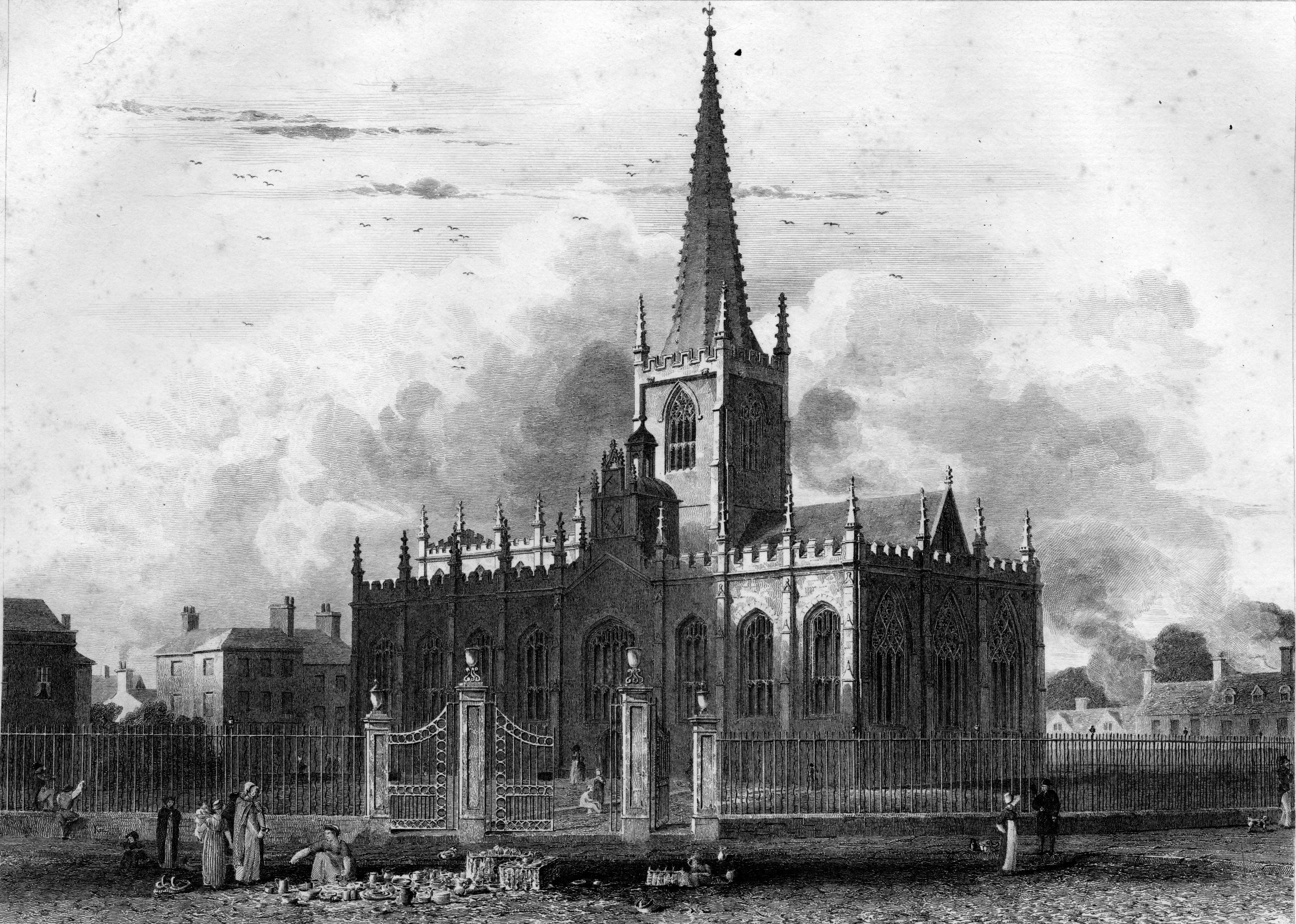 St. Peter's Church, Sheffield as it appeared in 1819.